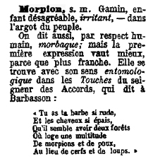 Definition of the French slang word morpion (tr: kid) in Alfred Delvau's Dictionnaire de la langue verte (tr: Slang dictionary). 1883 edition is available online.